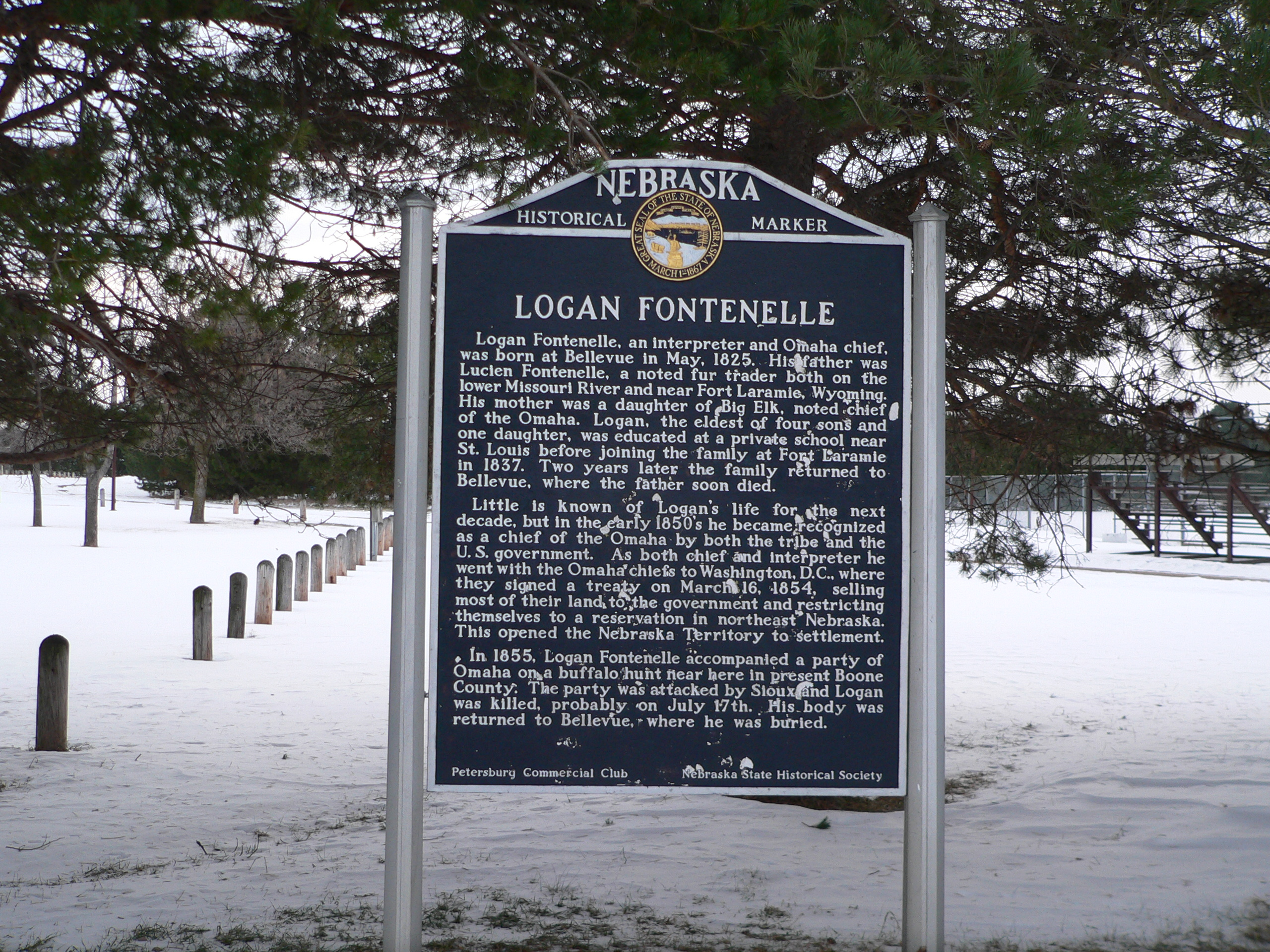 Nebraska historical marker in Petersburg, Nebraska, commemorating the nearby death of Omaha chief Logan Fontenelle in 1855.